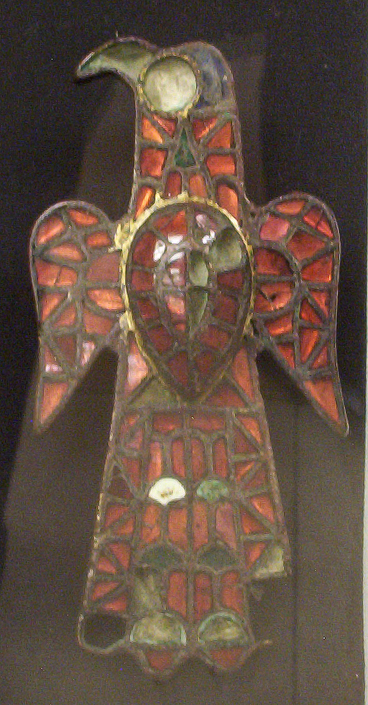 An eagle-shaped Visigothic fibula.